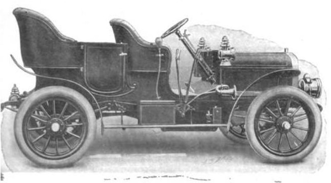 A photo of a 1906 Gaeth Touring Car from a magazine article; from Google Books scan: Title The Horseless age, Volume 17 Publisher Horseless Age Co., 1906 Original from the New York Public Library Digitized Jun 1, 2006